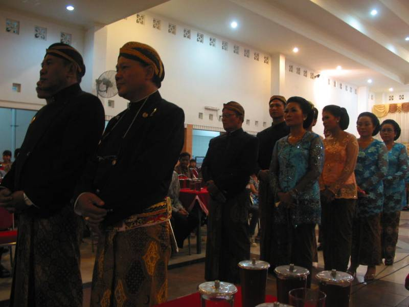 Javanese marriage ceremony, Surakarta (Solo)